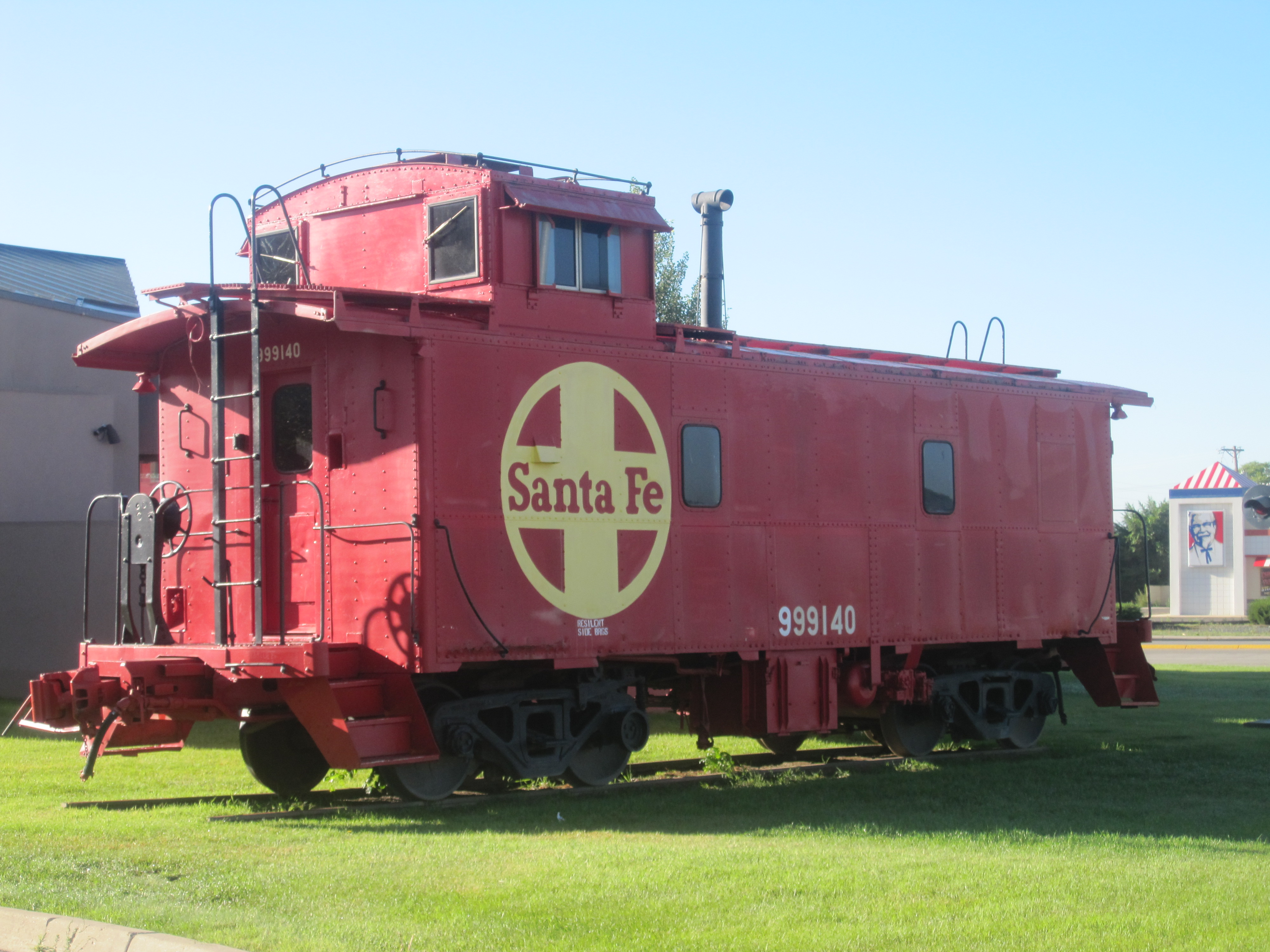 I took photo with Canon camera in Raton, NM.